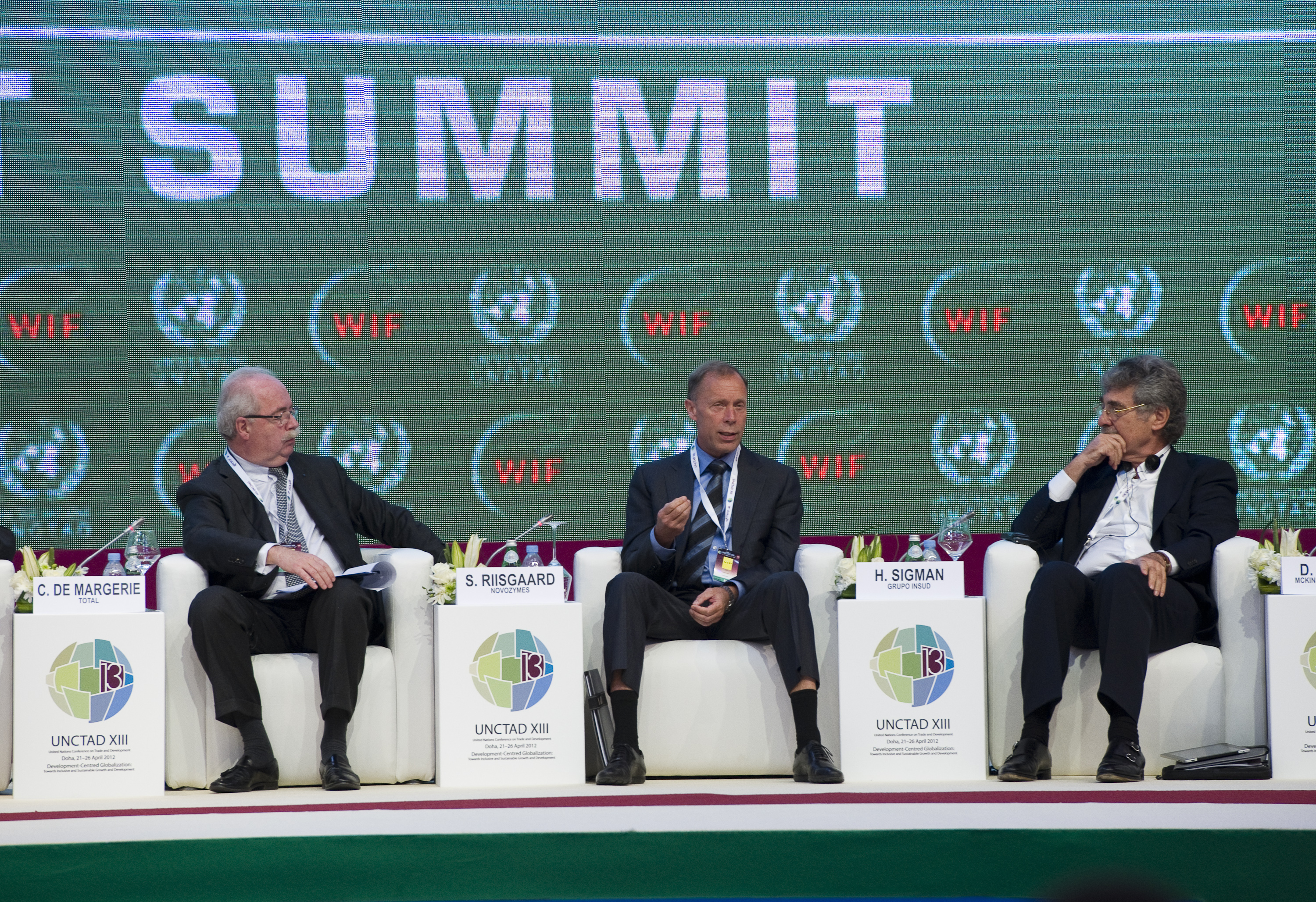 Mr. Christophe de Margerie, Chairman and Chief Executive Officer, Total, Mr. Steen Riisgaard, President and Chief Executive Officer, Novozymes, Mr. Hugo Sigman, President and Chief Executive Officer, Grupo Insud